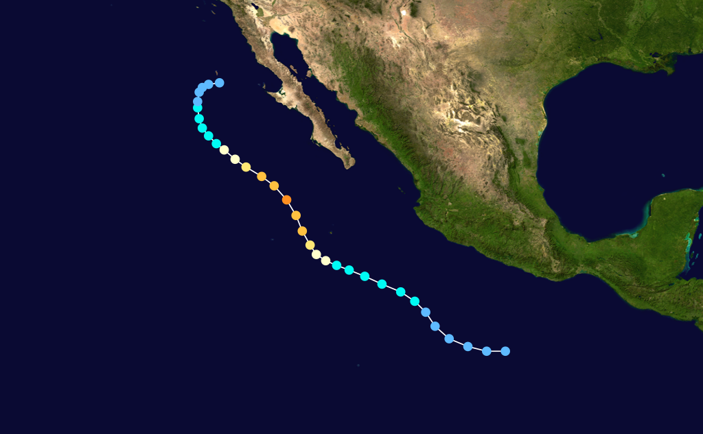 Hurricane Octave (1989) track. Uses the color scheme from the Saffir-Simpson Hurricane Scale.